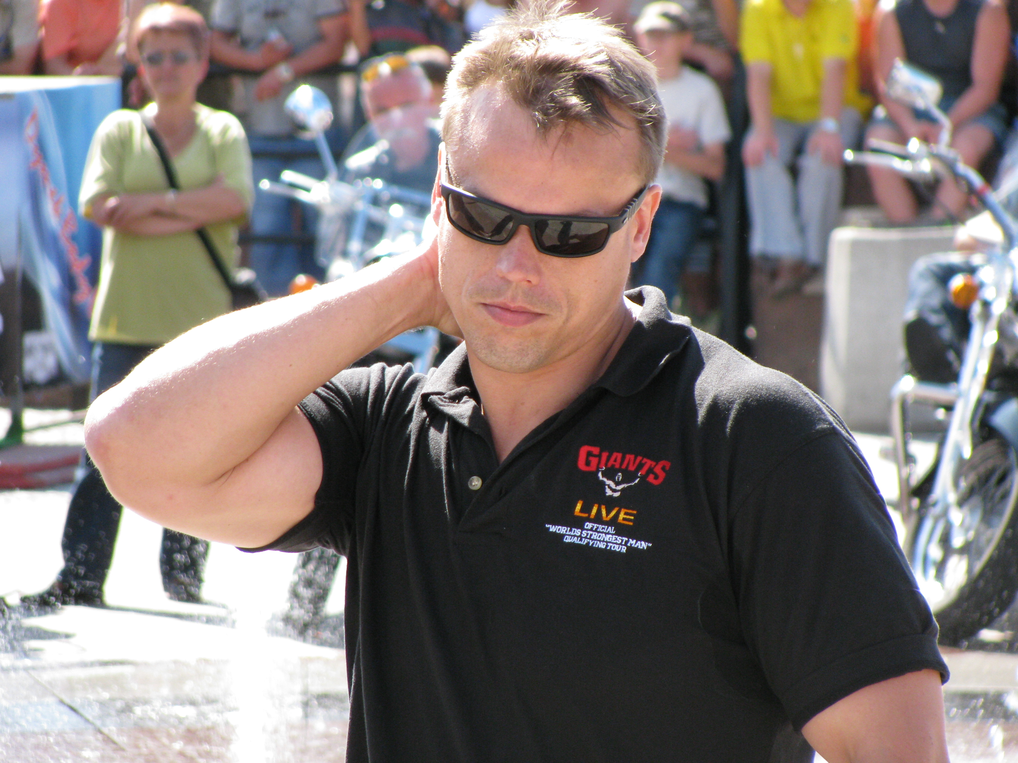 Colin Bryce - olympic bobsleigher, strongman & tv presenter from England